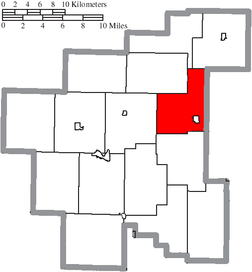 Map of the municipal and township boundaries of Noble County, Ohio, United States, as of the 2000 census, with the location of Marion Township highlighted. Township borders are shown only in unincorporated areas in order to differentiate incorporated and unincorporated areas more clearly.